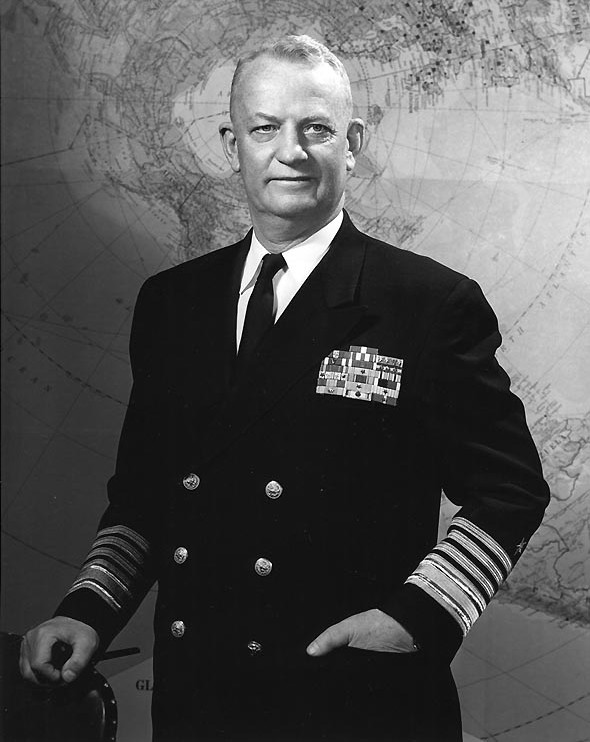 United States Rear Admiral Arleigh Burke, 1951 Photo # NH 50190 RAdm. Arleigh A. Burke